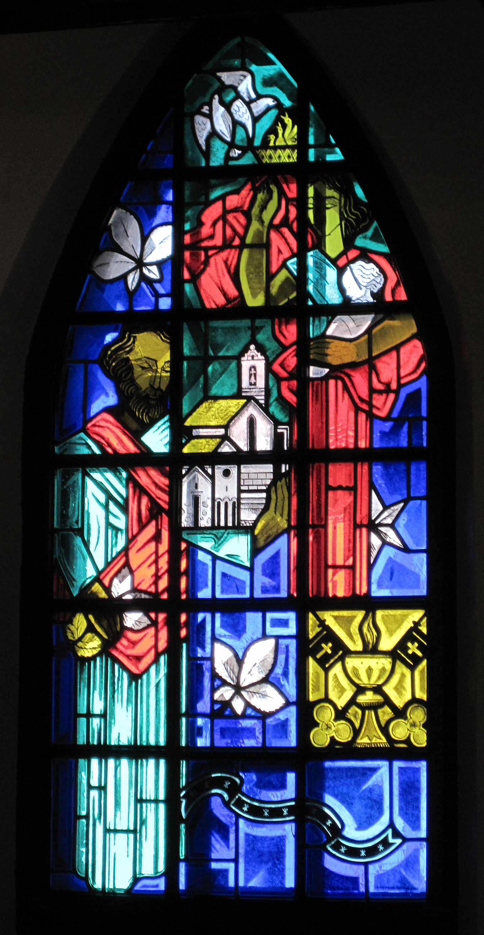 A stained glass window at the Saint George Church in Mariehamn, Åland, Finland